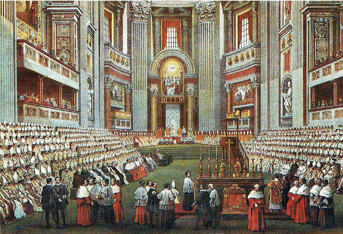 First Vatican Council, contemporary painting